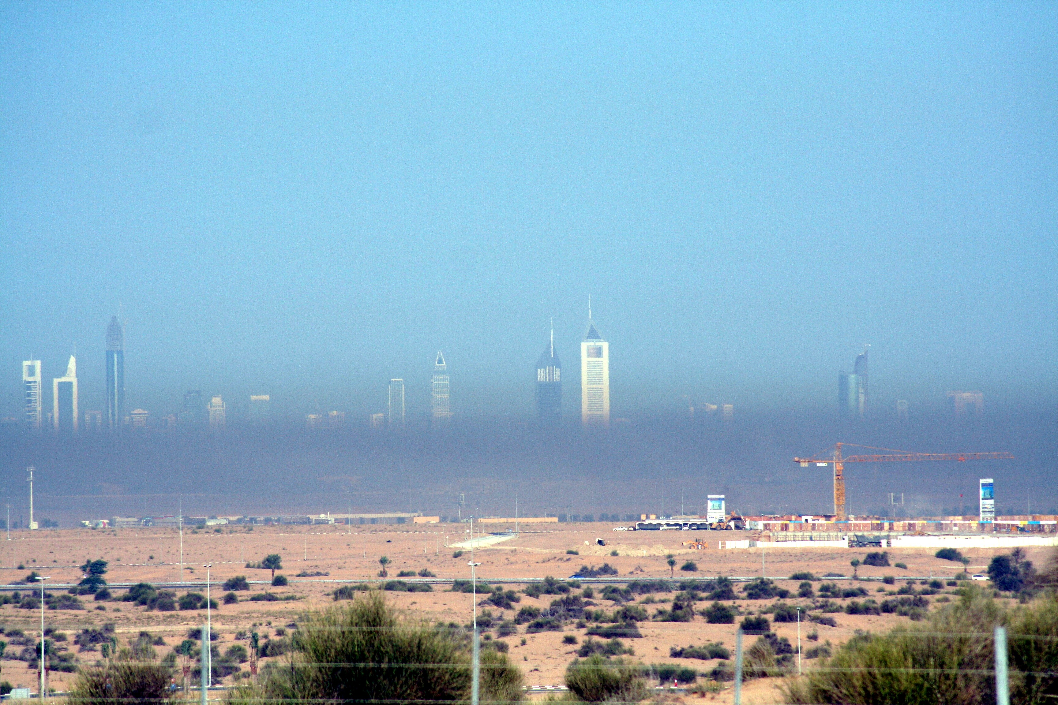 Smog on Sheikh Zayed Road in Dubai